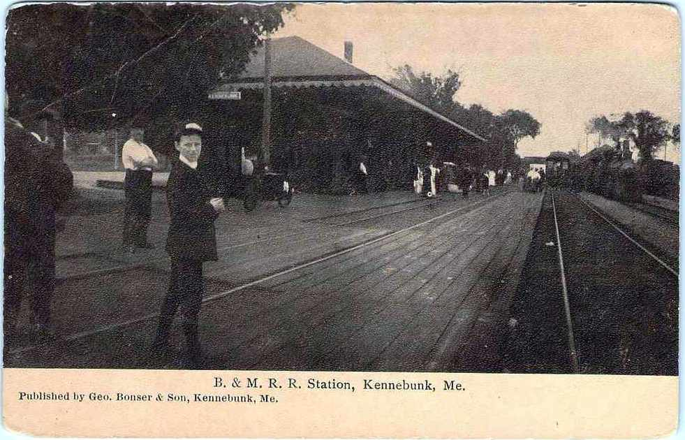 Early divided back postcard of Kennebunk station